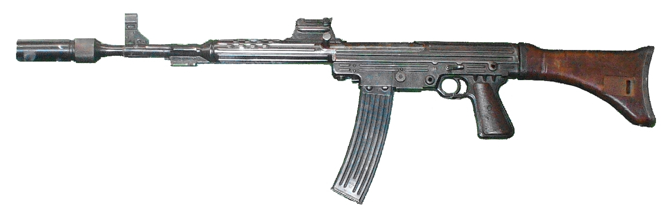 Maschinenkarabiner 42 (Mkb 42W), Germany. Prototype for an assault rifle, developed by Walther. Attached at the muzzle is a Schießbecher, a device to fire rifle grenades